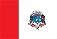 Flags of the city of Alfredo Vasconcelos, Minas Gerais, Brazil.